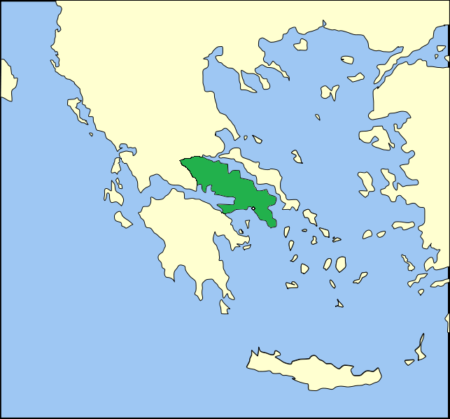 Map of the Duchy of Athens